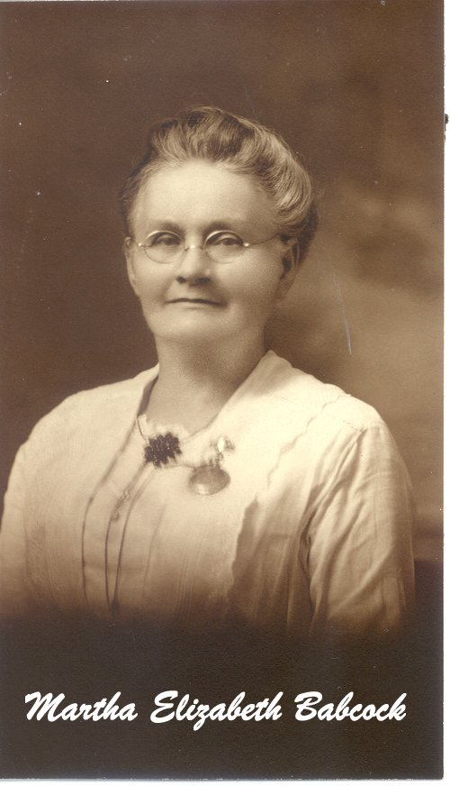 Martha (Babcock) Caldwell